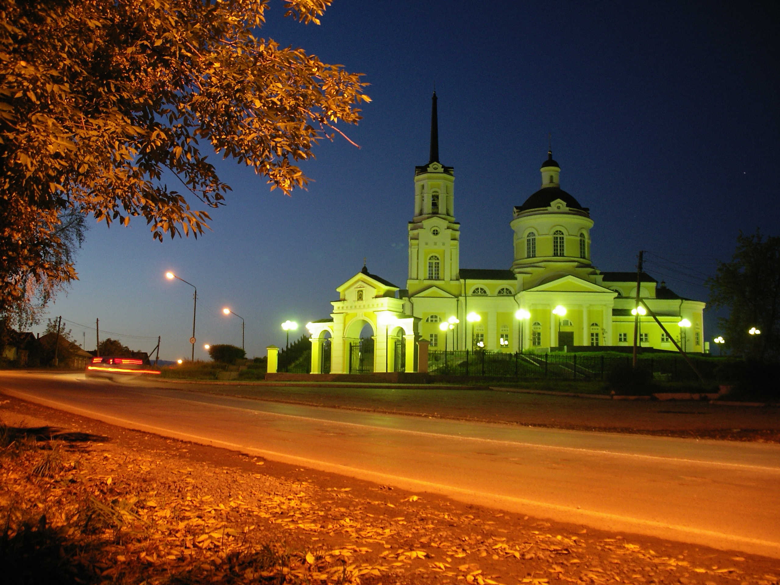 Church Assumption of Mary, Verkhnyaya Pyshma